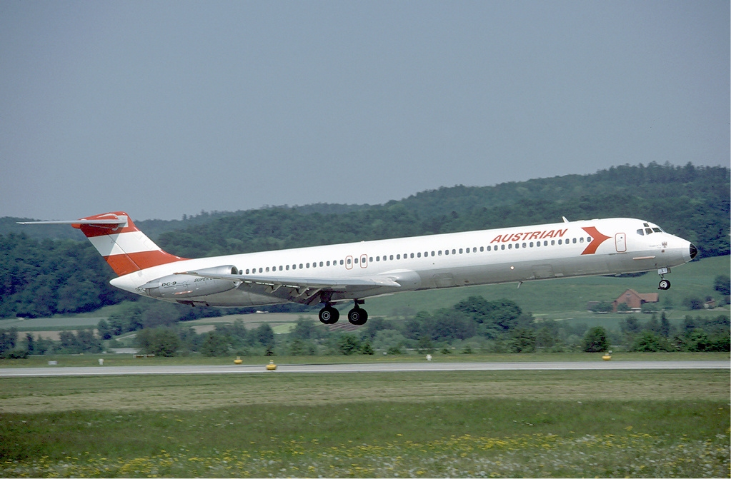 McDonnell Douglas MD-81 of Austrian Airlines at Zurich Airport